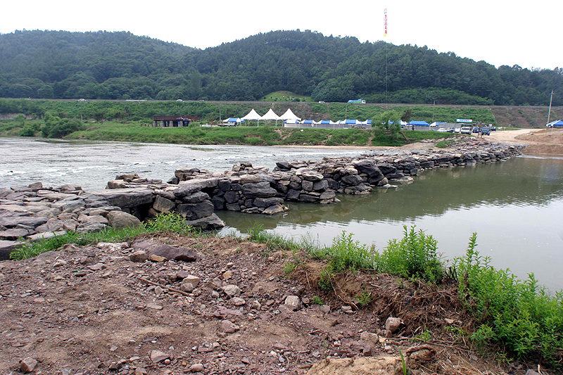 Said to be built by a certain "General Im" in the early Goryeo era (tenth to twelfth centuries), this stone bridge in Jincheon County, North Chungcheong Province, features twenty-eight segments. It was originally high enough that a man could pass under it, but rising water levels have submerged most of it.